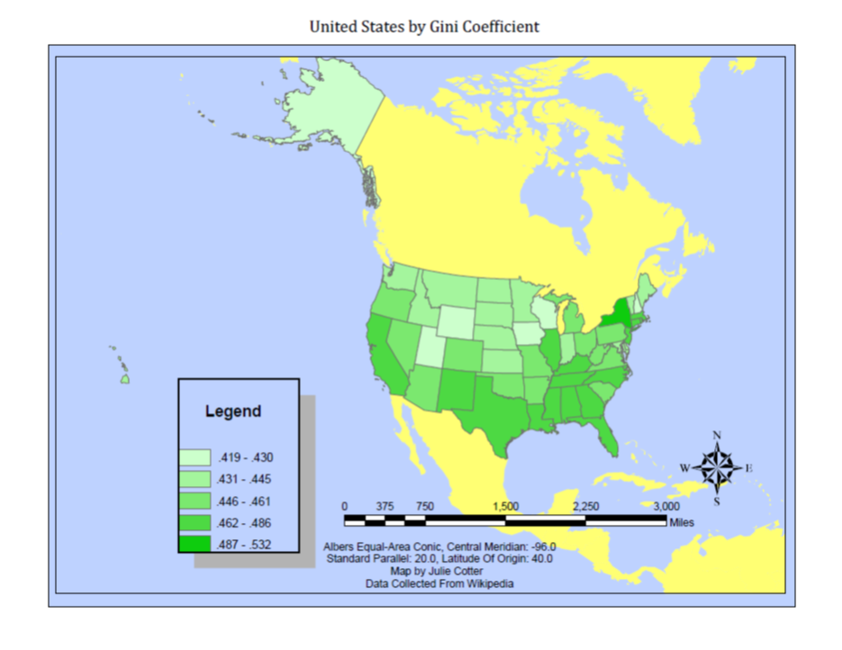 Choropleth map dividing the United States by Gini Coefficient